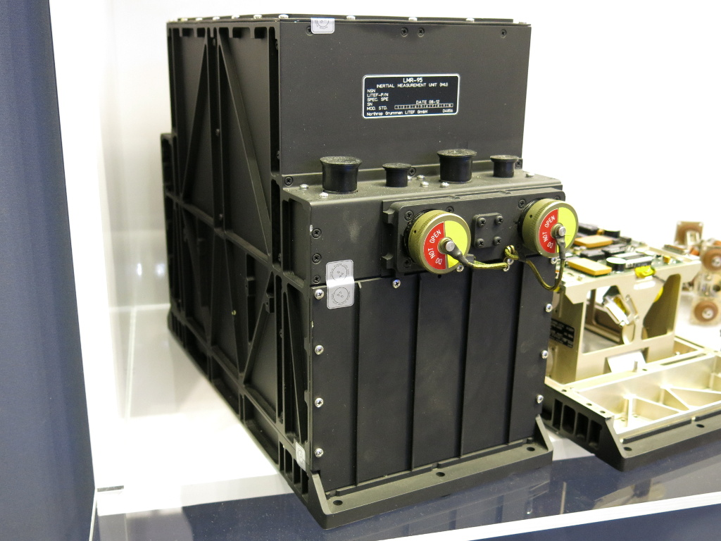 Inertial measurement unit of Eurofighter Typhoon made by LITEF